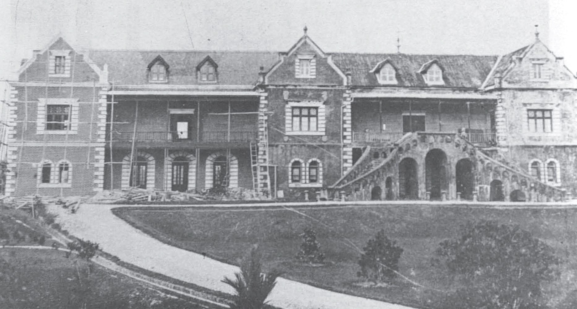 The Sarawak museum building in 1911. The construction of new wing of the museum was in progress. However, the brick work steps outside the old wing was demolished in 1912.